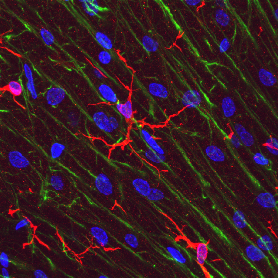 Rat cerebellar molecular layer stained with IBA-1 antibody which reveals microglial cells (red). Bergmann glia are revealed in green with antibody to GFAP. Nuclear DNA is shown in blue with DAPI stain. Antibodies and image generated by EnCor Biotechnology Inc.